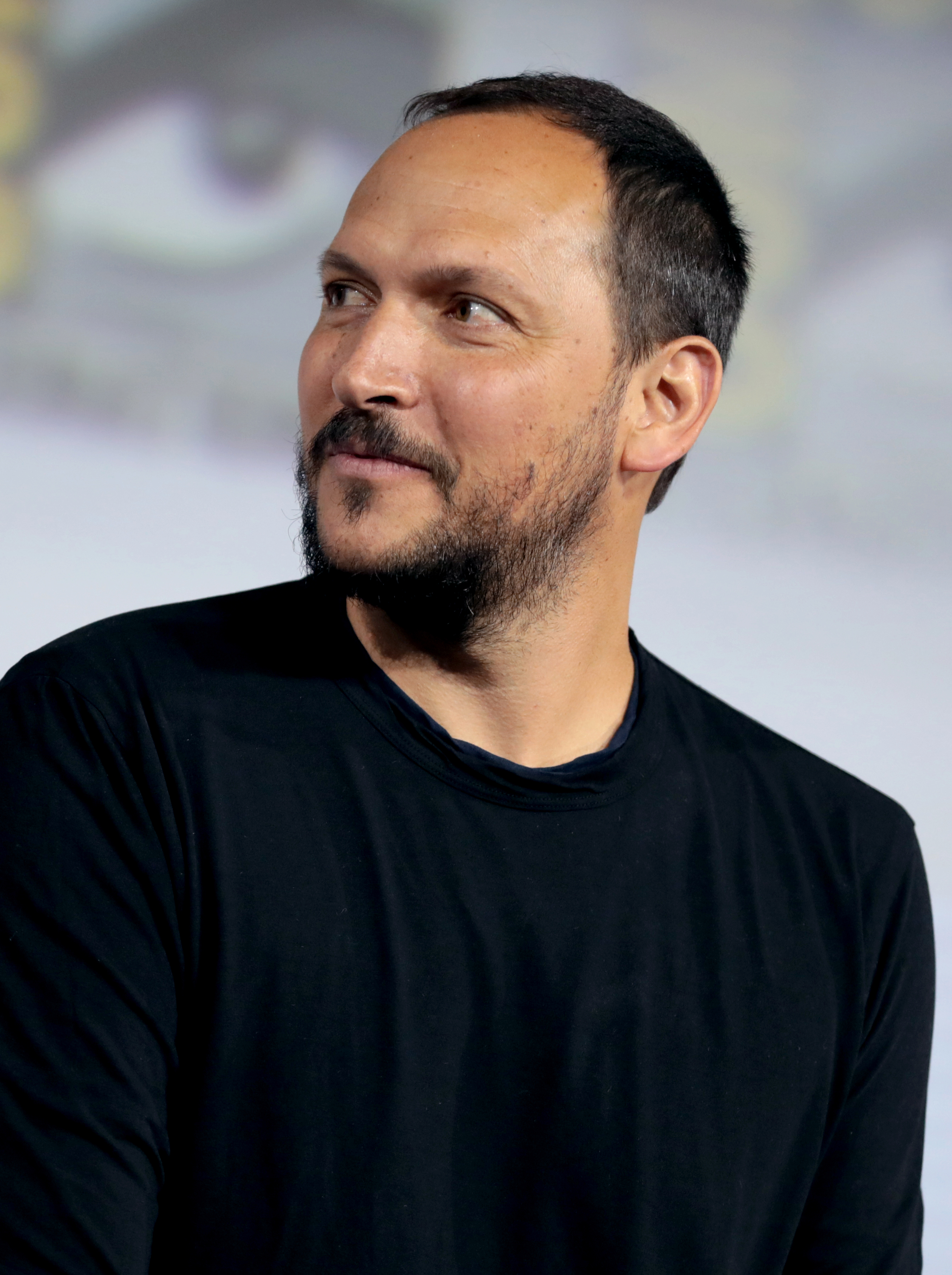 Louis Leterrier speaking at the 2019 San Diego Comic-Con International in San Diego, California.